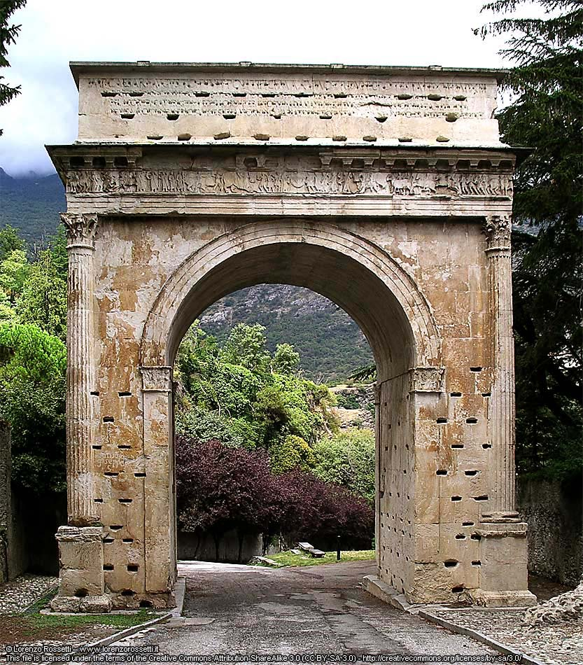 The Roman arch of Susa (9-8 b.C), Piemonte, Italy